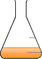 Diagram, drawn by Theresa Knott. The drawing tools that come with Microsoft Word were used to draw this diagram, which was then copied and pasted into Paint Shop Pro to convert it to a png format. Bild:Conical flask.png